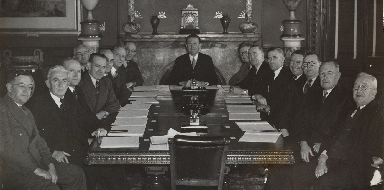 First meeting of the new NSW Executive Council, 16 May 1941. Meeting was presided over by the Governor, Lord Wakehurst, at the Chief Secretary's Building and shows from left: Messrs. William Dickson (Assistant Minister), Maurice O'Sullivan (Transport), James McGirr (Local Government Housing), Joseph Cahill (Public Works), Hamilton Knight (Labour Industry Social Services), Bob Heffron (National Emergency Services), Bill Dunn (Agriculture and Forests), William McKell (Premier/Colonial Treasurer), Lord Wakehurst (Governor), Jack Baddeley (Deputy Premier/Colonial Secretary/Mines), Clarrie Martin (Attorney-General), Clive Evatt (Education), Reg Downing (Justice/Vice-President), Gus Kelly (Health), Jack Tully (Lands) and Carlo Lazzarini (Assistant Minister).